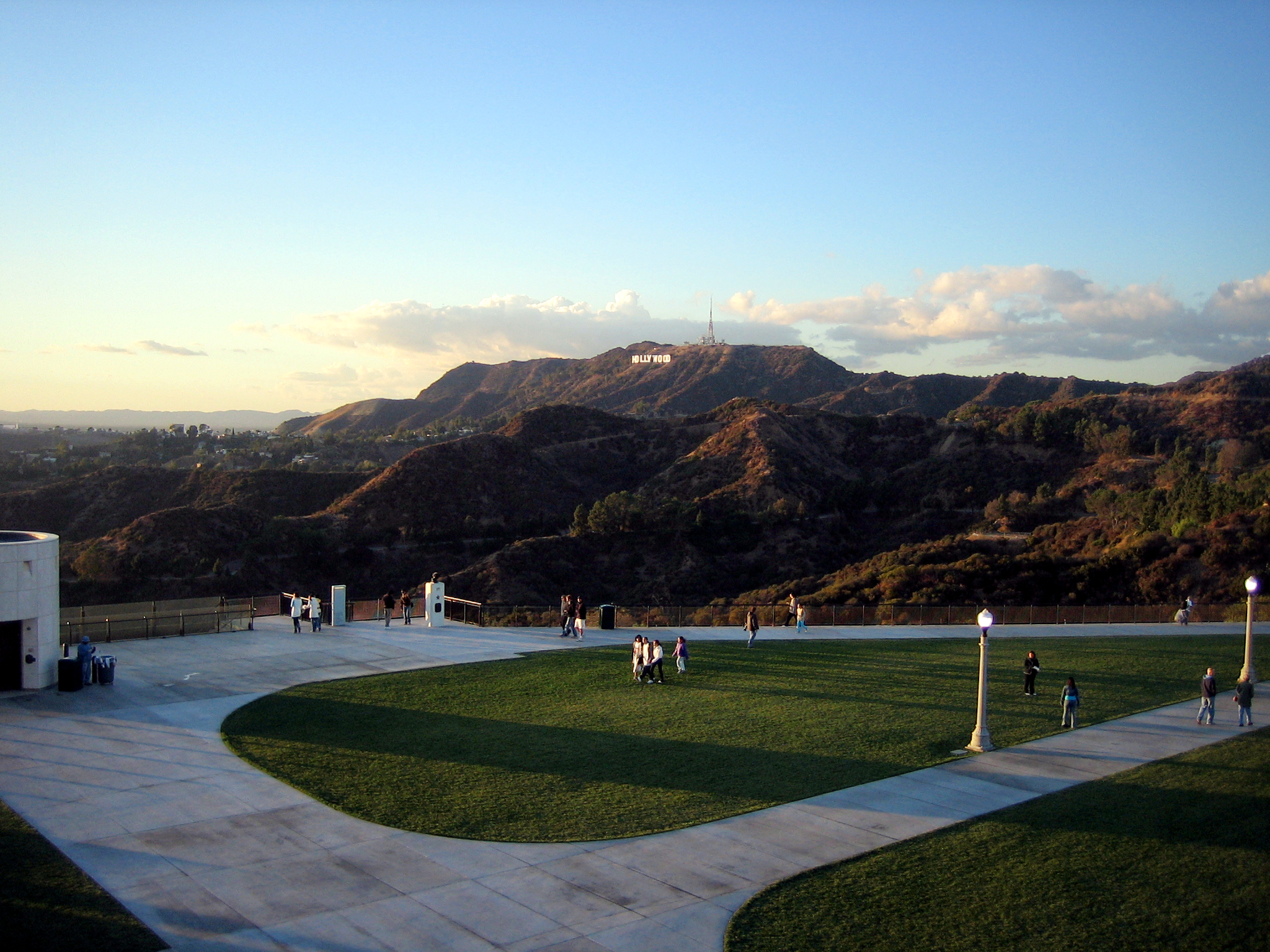 View of the Hollywood Sign on Mount Lee (Santa Monica Mountains) in Los Angeles, California, from Griffith Observatory. (Note: picture taken on a very clear day, a day after rain; Los Angeles is otherwise quite smoggy, and you'd have trouble seeing the sign.)